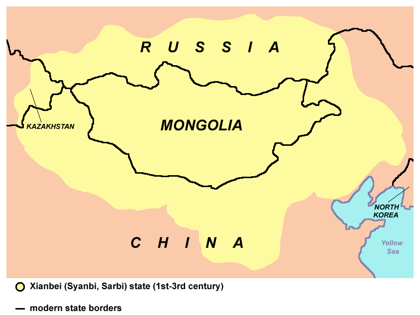 Map of the Xianbei (Syanbi, Sarbi) state (1st-3rd century).